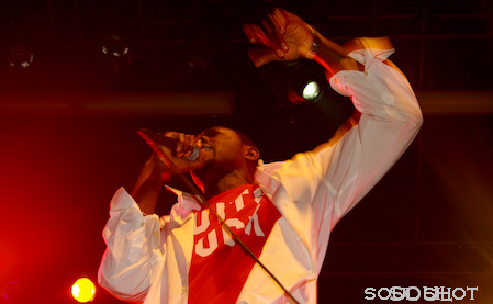 nokia